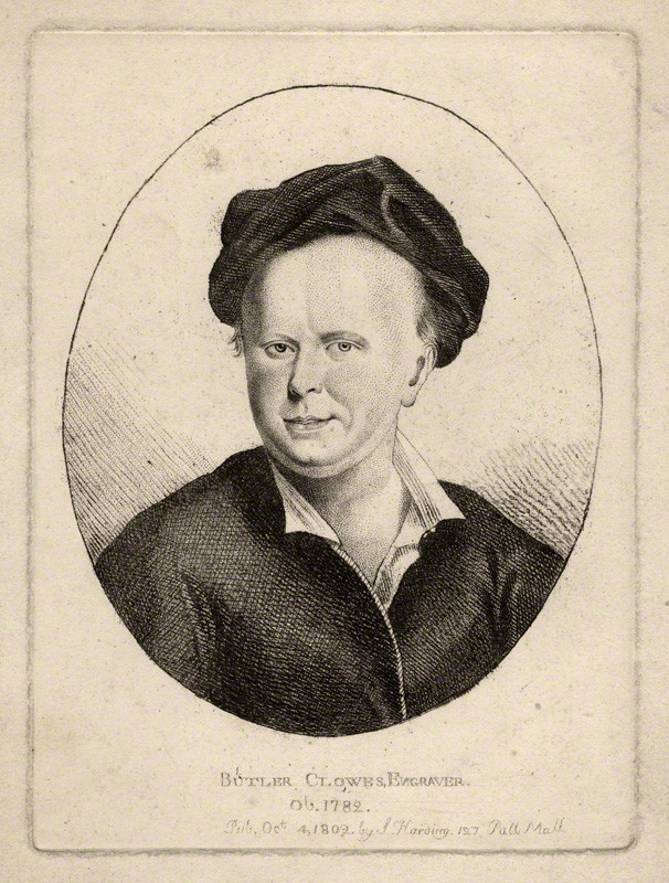 Portrait of Butler Clowes (died c.1788), English mezzotint-engraver.